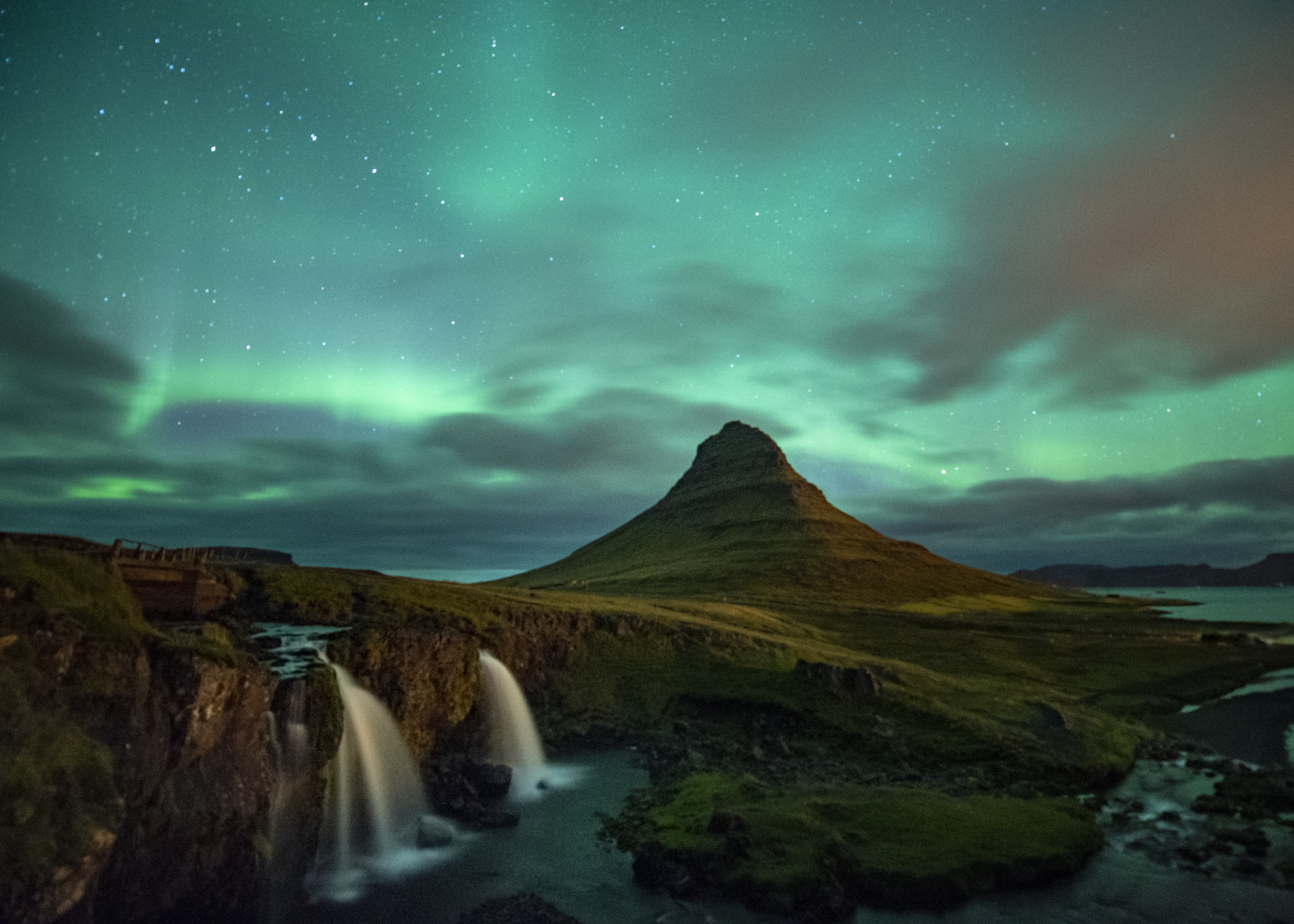 Aurora Borealis activity on top of the Kirkjufell mountain, Iceland in September 2018. This shot was taken at about 12:30 AM on a night that experienced a lot of solar activity. There were many photographers even at the dead of the night taking long exposure photographs with the milkyway, the northern lights and the waterfalls along with the majestic mountain in the background.